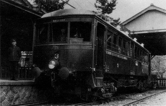 Train of Hakone Tozan Railway type Chiki 1 No.3 stopping at Gora Station